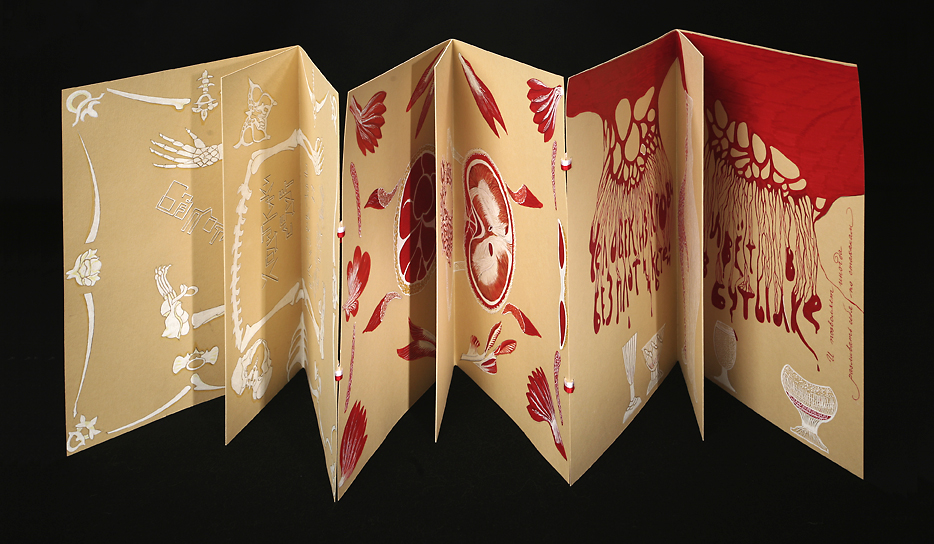 Tamara Ivanova. Hans Arp. A Man, 2008. Hand-drawing with ink and pencils, texts by Hans Arp (translated into Russian). Leporello, bound together with white and red ties. Unique copy.